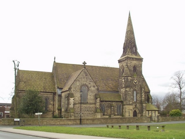 St James's Church, Seacroft. Looking across the south-east corner of The Green from York Road. The church was built in 1845 by Benjamin Russell of Leeds. See another view here 140176